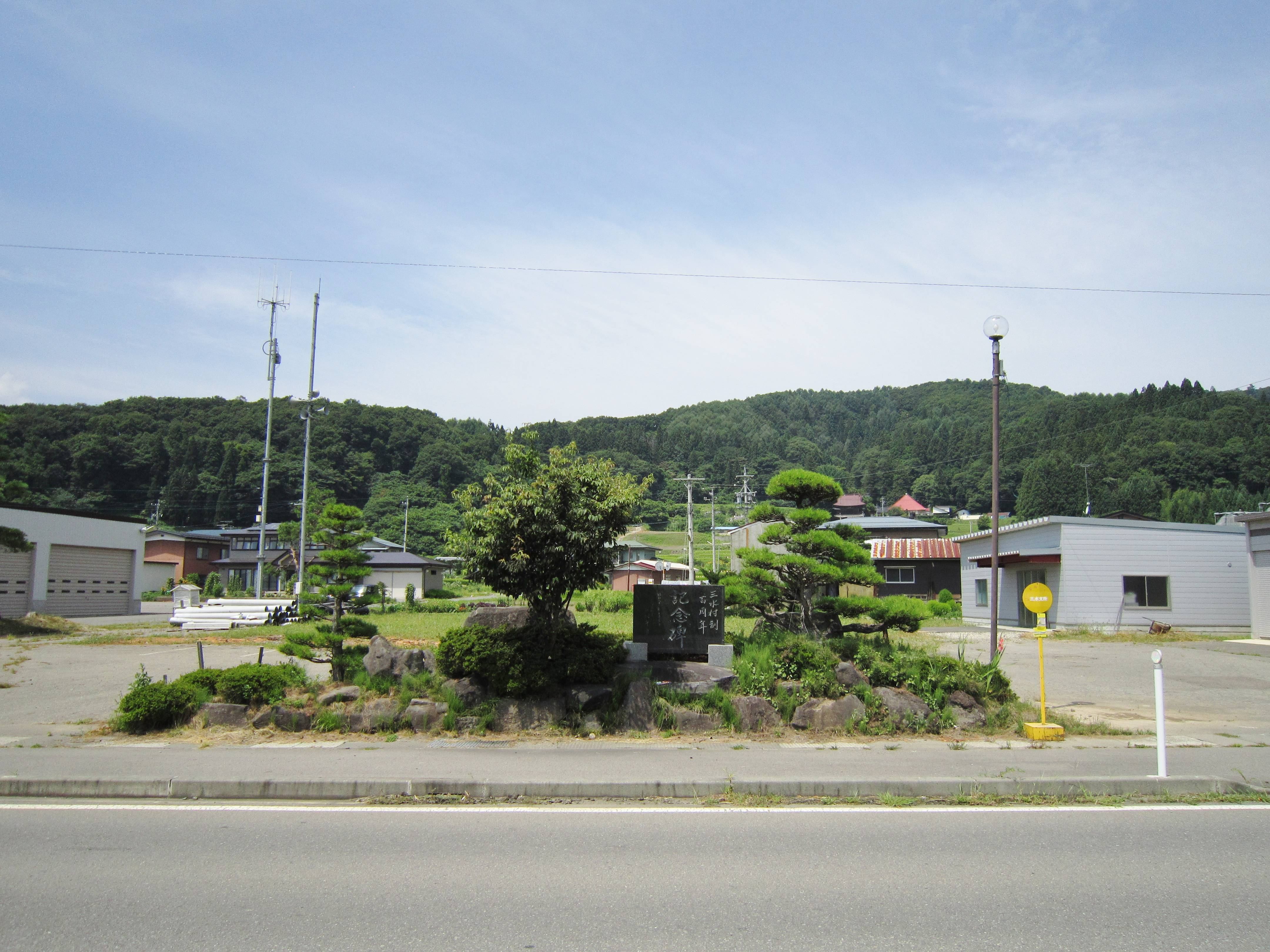 Iizuna town Samizu branch office.